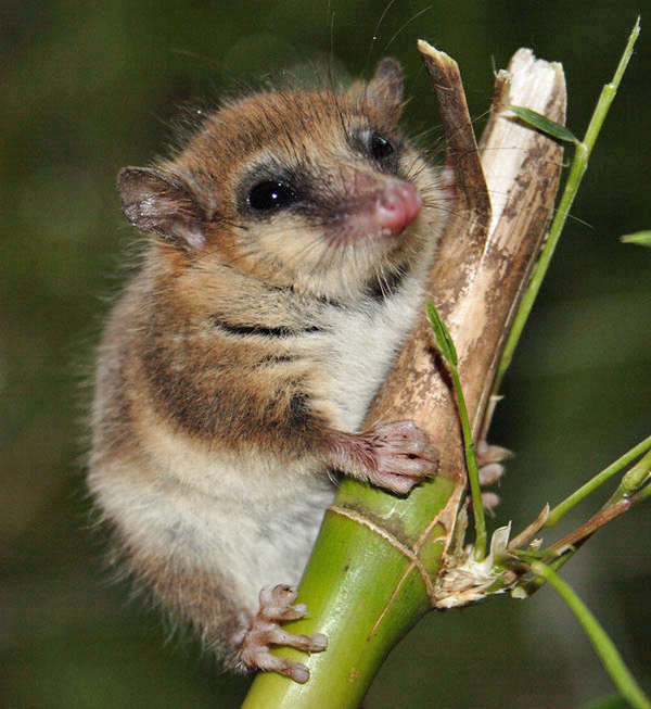 The monito del monte (Dromiciops gliroides) is an marsupial native to Argentina and Chile that may be more closely related to Australian marsupials than other South American marsupials.Uploader's note: The original Flickr image has been edited to increase brightness.